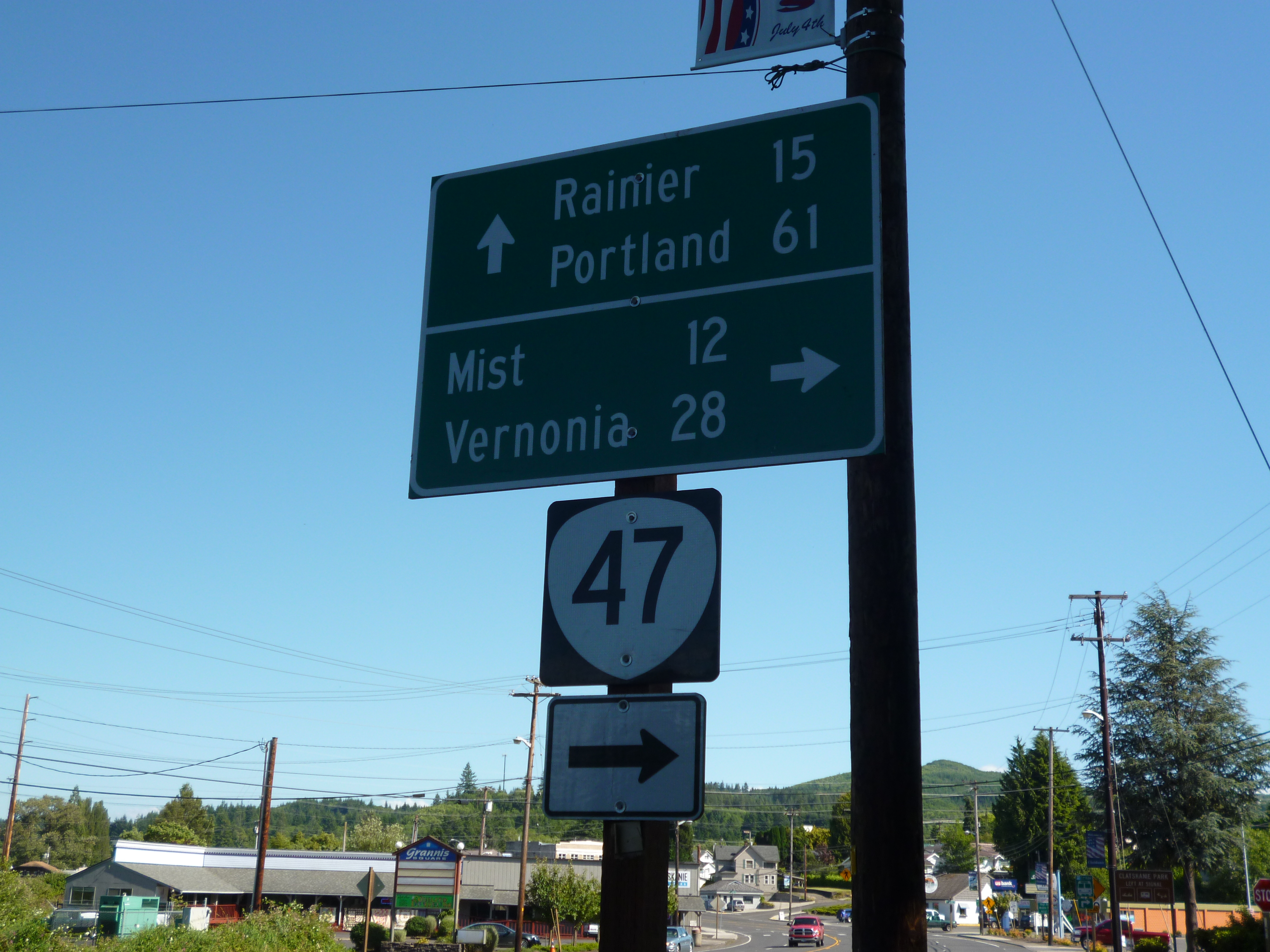 This is where Oregon 47 starts and intersects with US 30 in Clatskanie, Oregon.